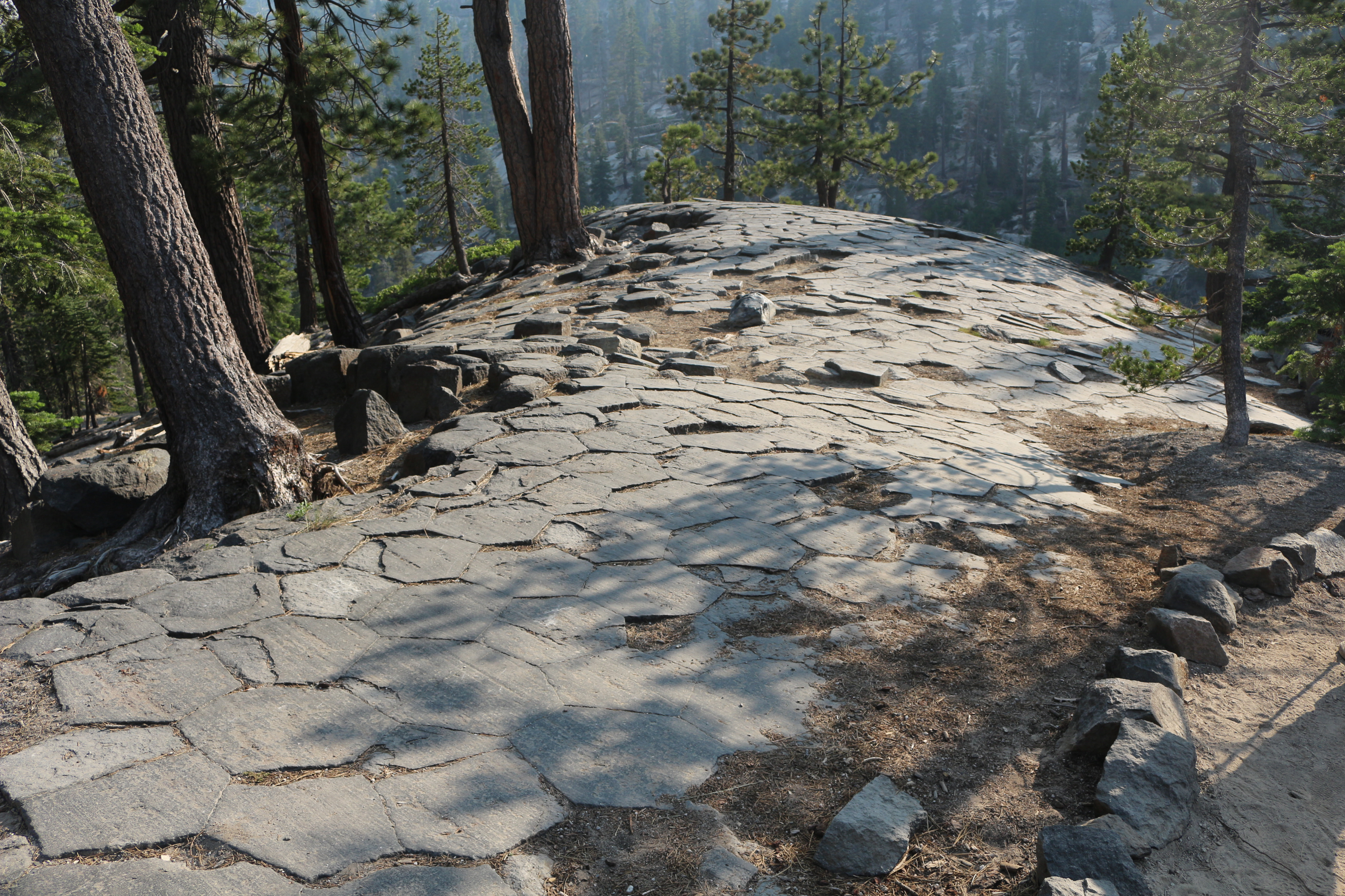 California, Devils Postpile National Monument, basalt columns top